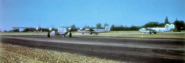 B-24s of the 493d Bombardment Group USAAF at Debach Airfield, England.